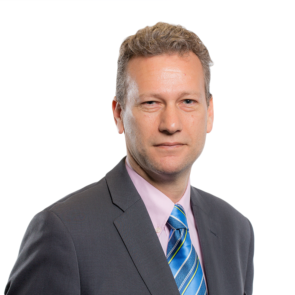 Party: United Kingdom Independence Party (UKIP) Region: North Wales